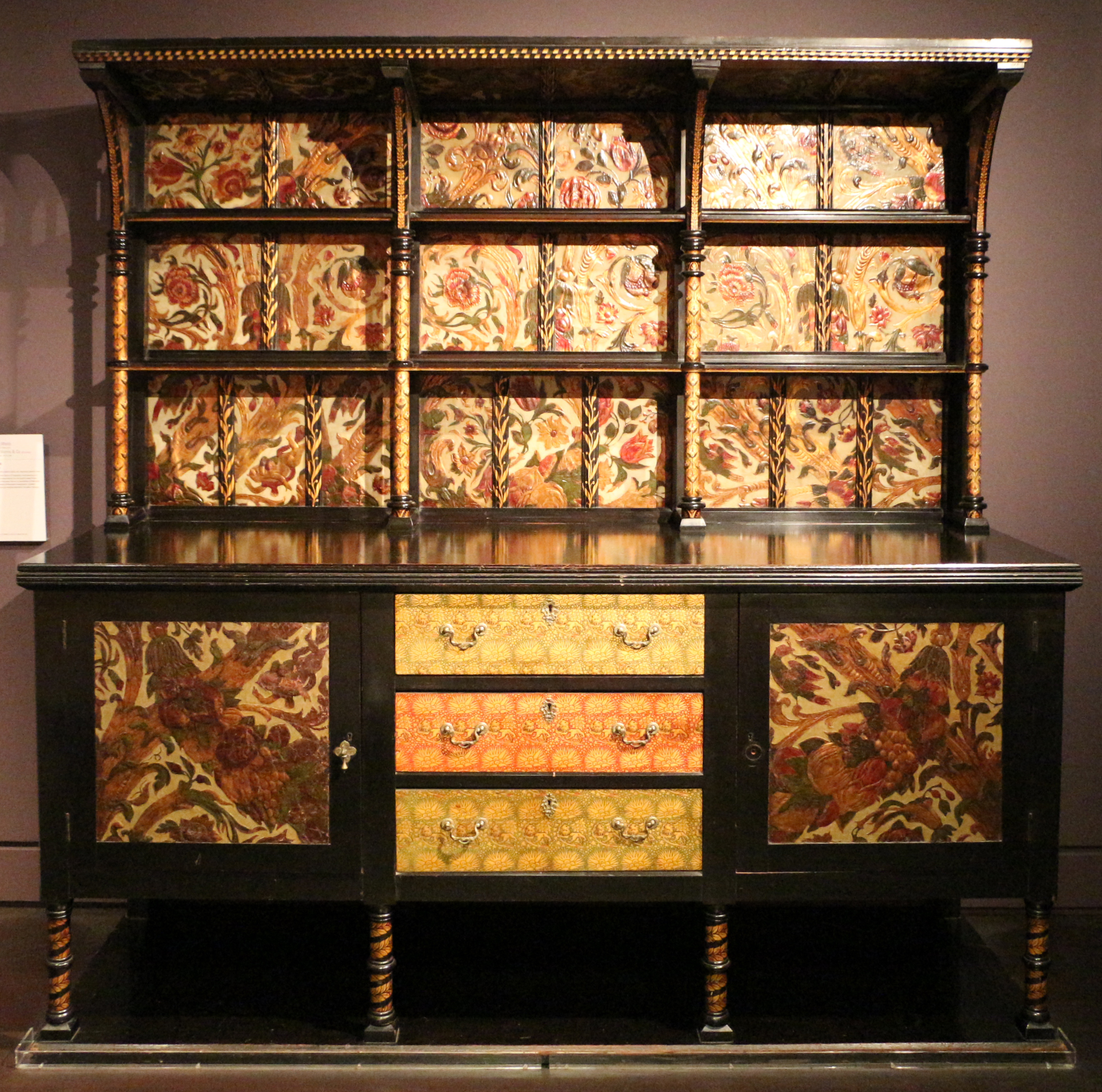 Decorative arts in the Musée d'Orsay